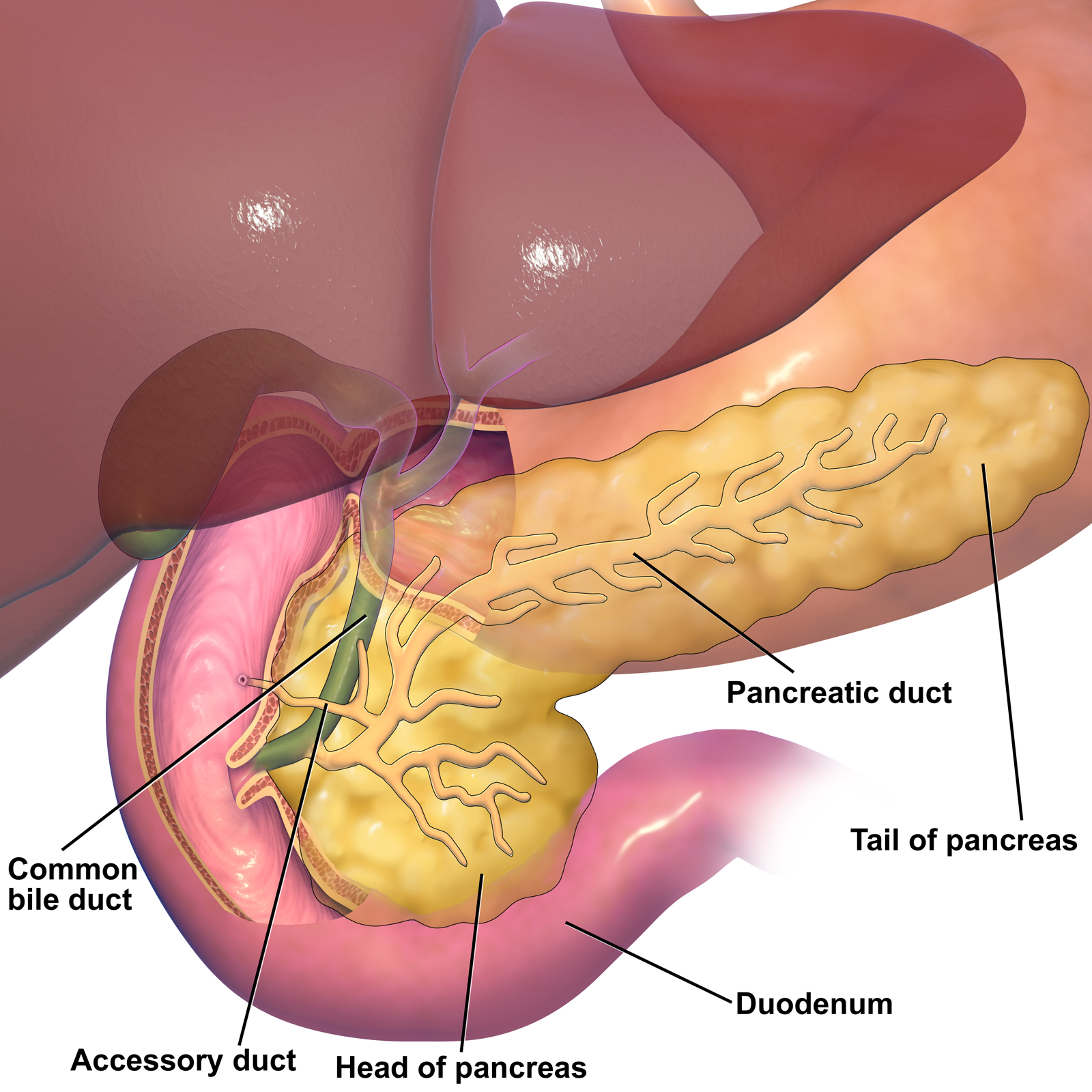 Pancreas Anatomy. See a related animation of this medical topic.